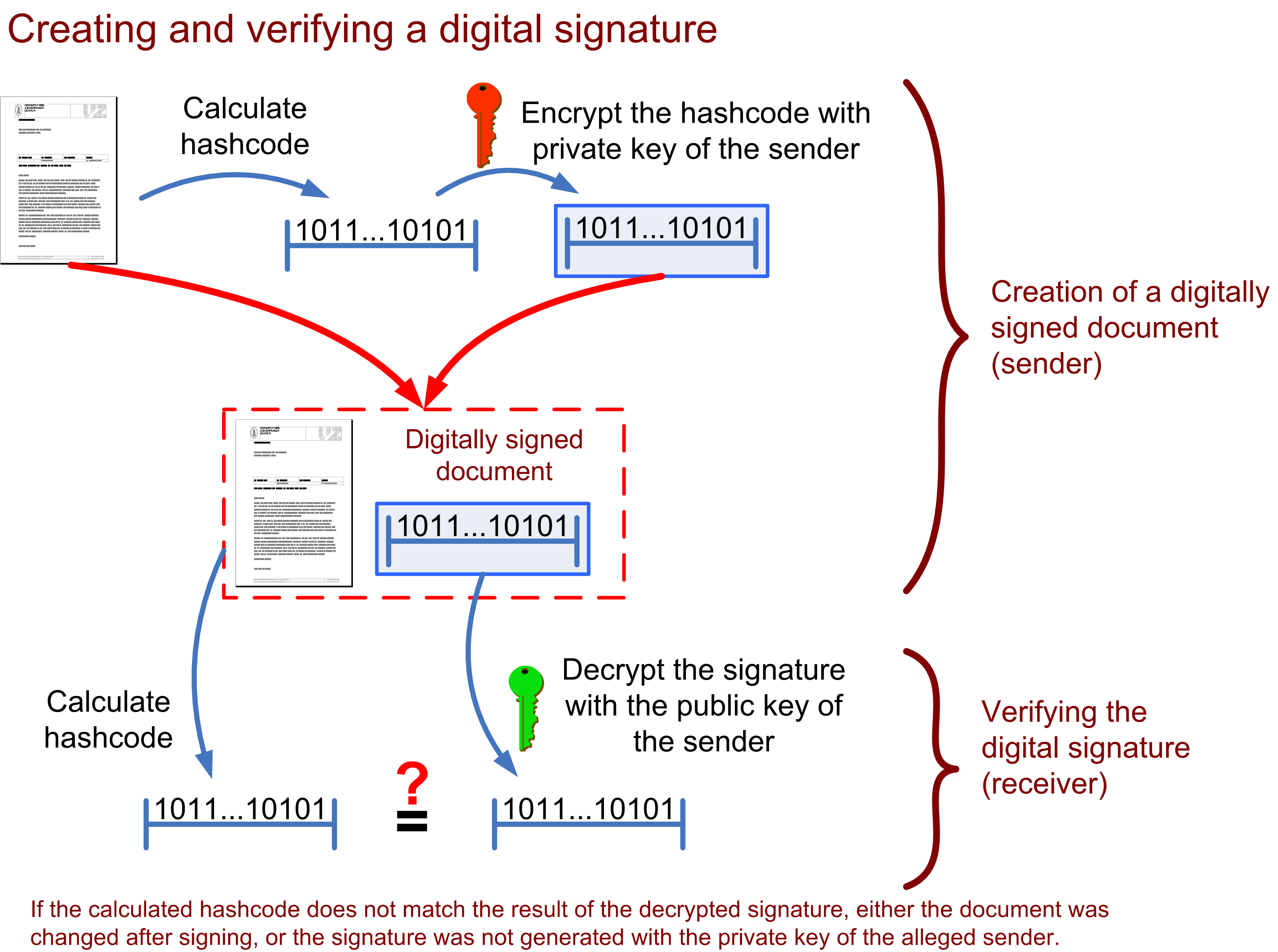 creating and verifying a digital signature